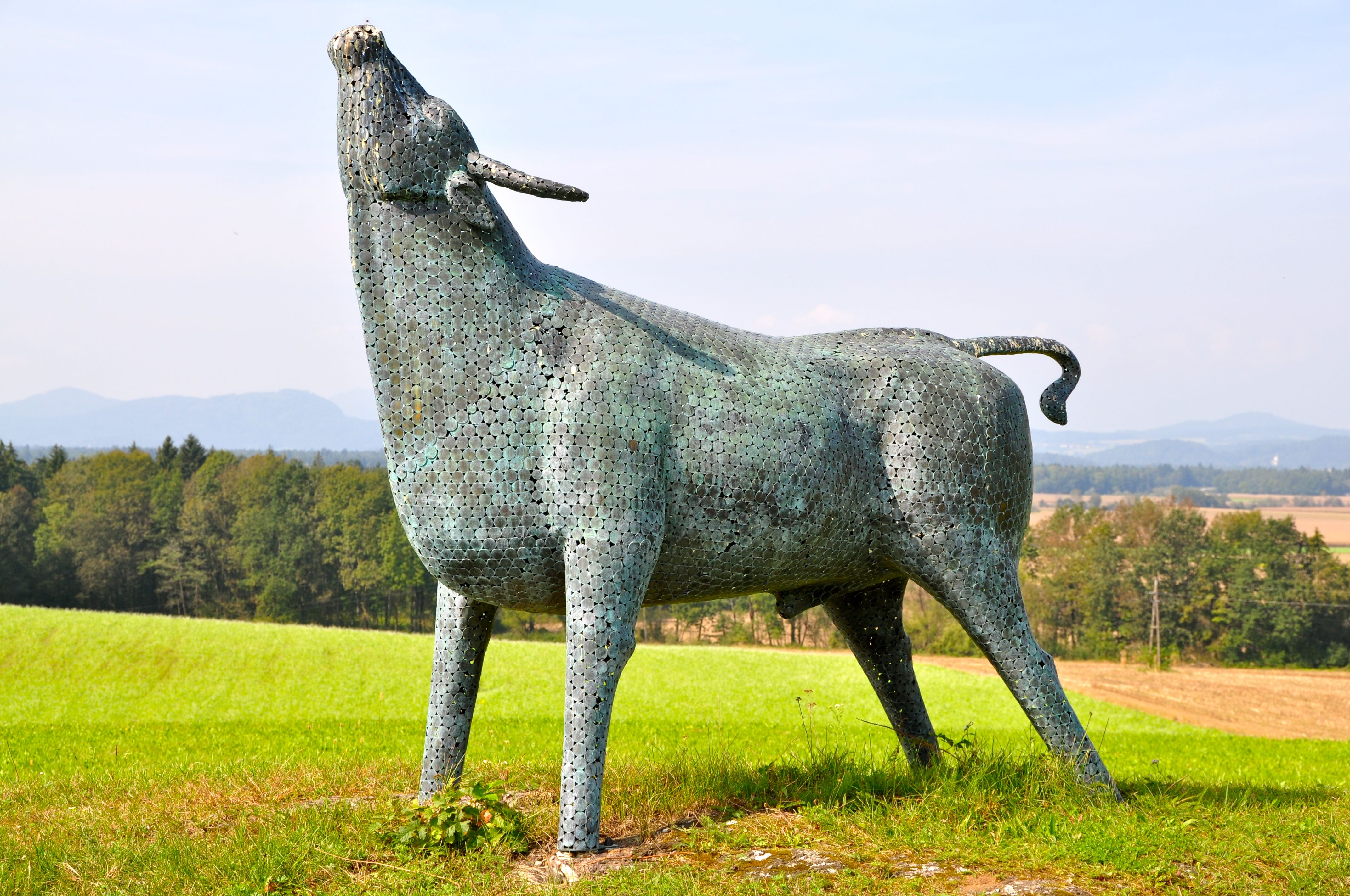 Sculpture of a "Bull" by Prof. Wu Shaoxiang at Pakein, municipality Grafenstein, district Klagenfurt Land, Carinthia, Austria